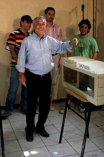 Sebastián Piñera, Chilean politician and economist.